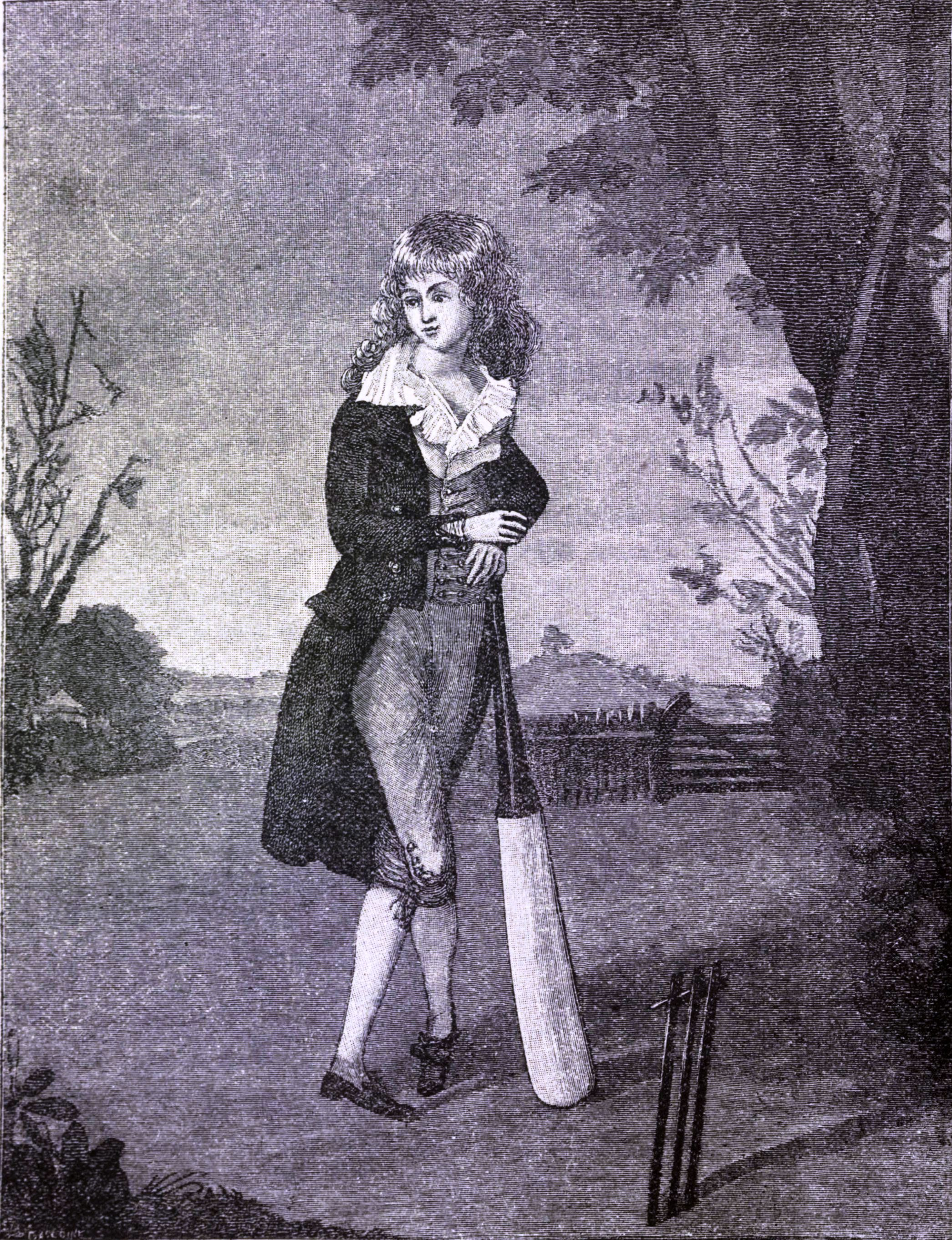 Scanned image from "Cricket", by WG Grace, 1891"